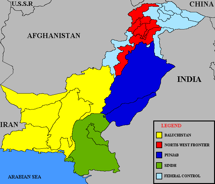 This map shows the new provinces of Pakistan relative to the former states and provinces.